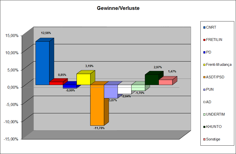 Win and lost of parties in parliament election 30th June 2007 in East Timor